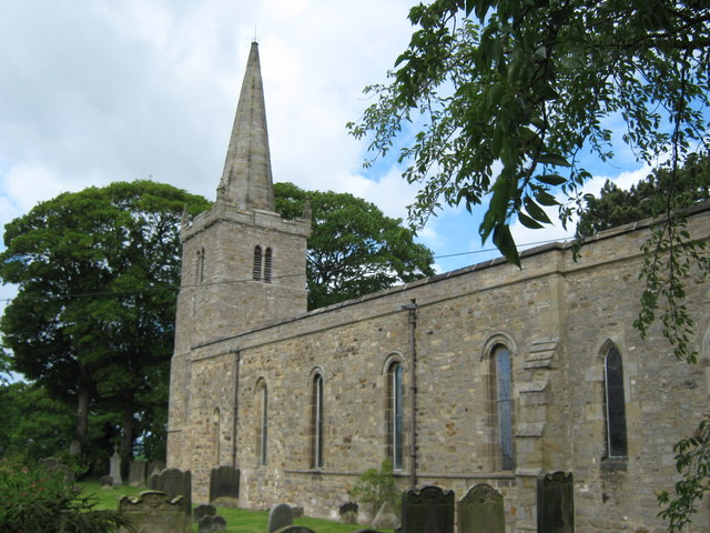 St Edwin's Church High Coniscliffe. In Darlington Borough the south side viewed from the churchyard